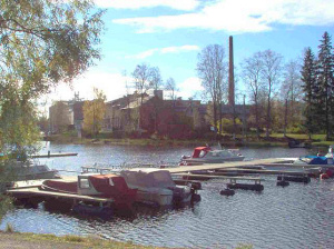 Liperi, Finland